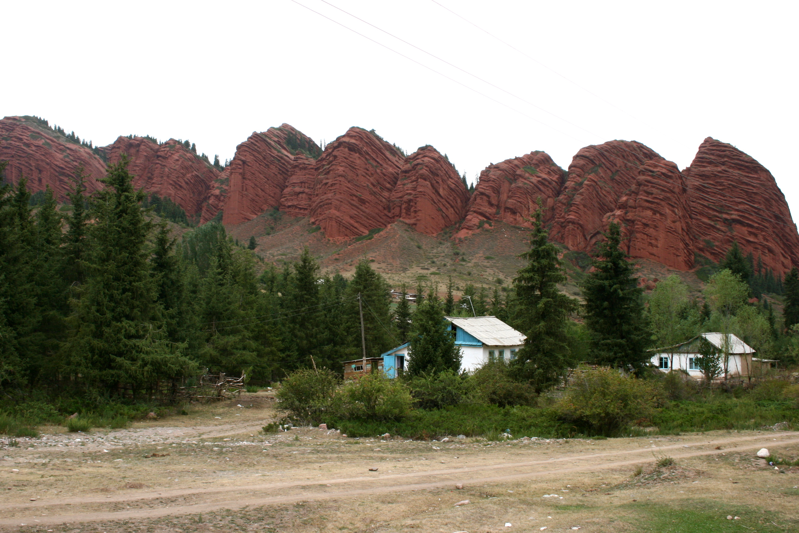 Kyrgyzstan (east of Issyk-Kul lake). This mountain formation is called «Jeti-Oguz» («Seven oxes»), which also is the name of the nearby village.